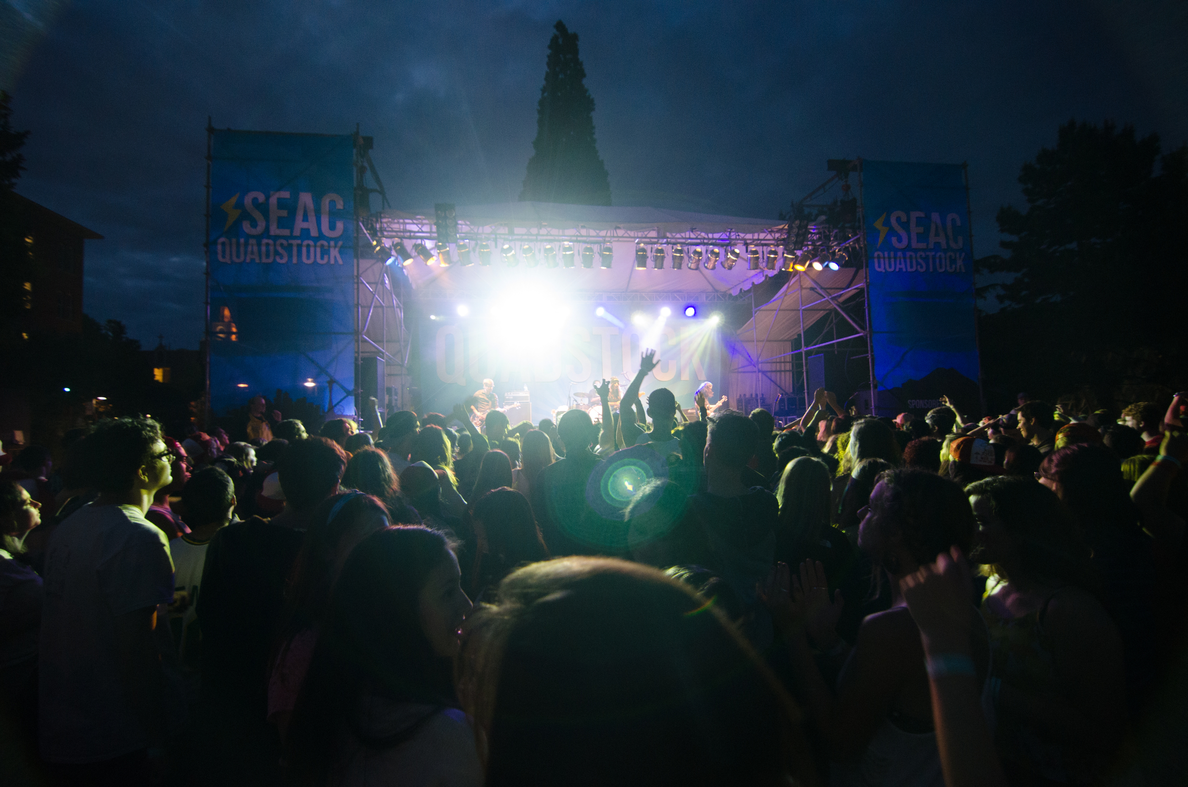 Quadstock 2014